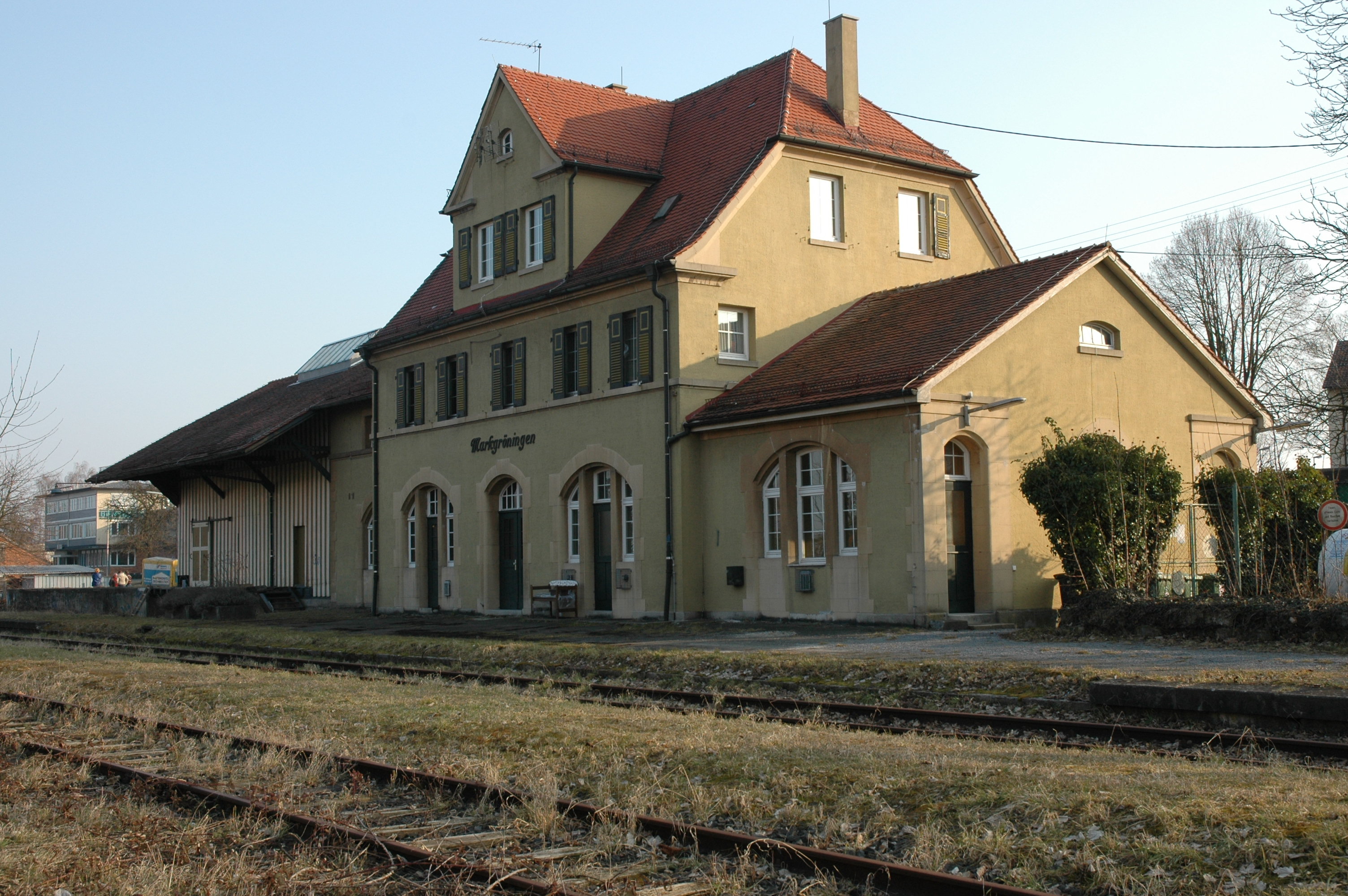 currently abandoned train station of Markgröningen.